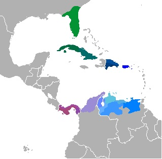 Current distribution of Caribbean Spanish dialects